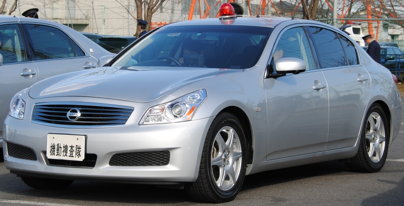 Nissan Skyline unmarked car.